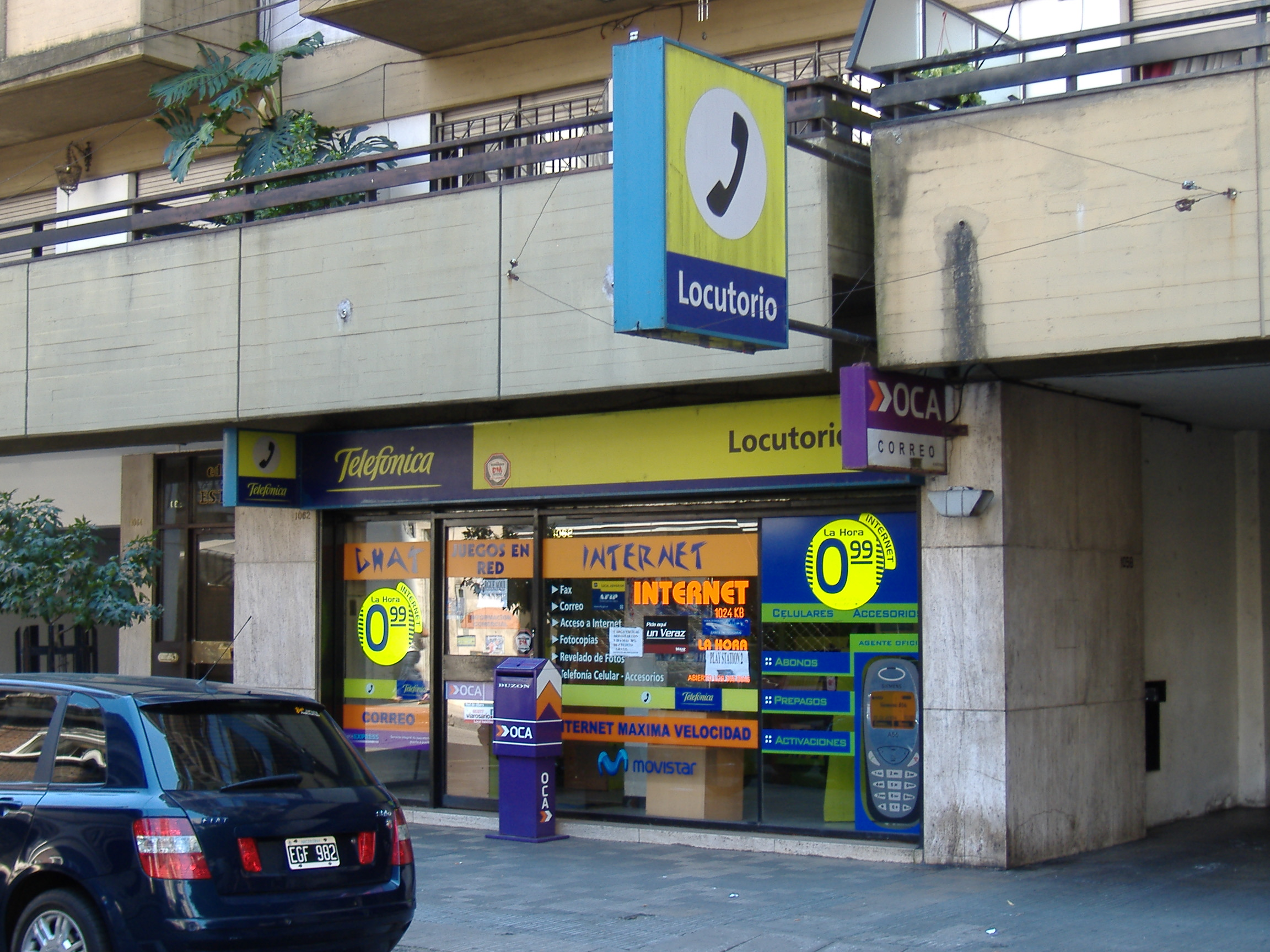 A public telephone booth facility and cybercafé, sponsored by Telefónica, in downtown Rosario, Argentina. This picture was taken by Pablo D. Flores on 7 March 2006.